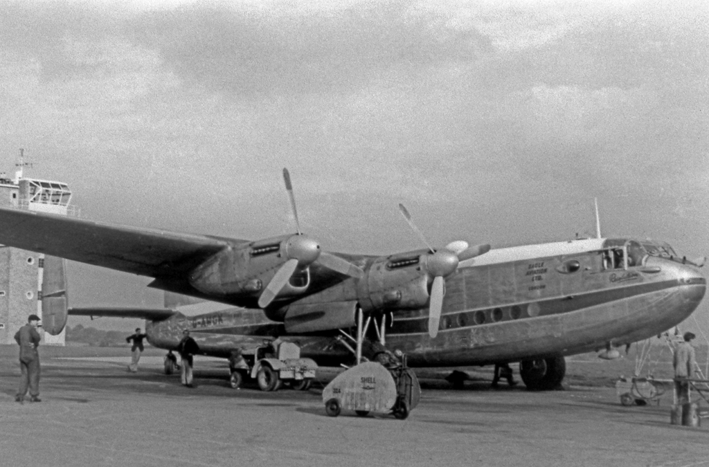 Avro York G-AMGK of Eagle Aviation Limited at Luton Airport in 1952